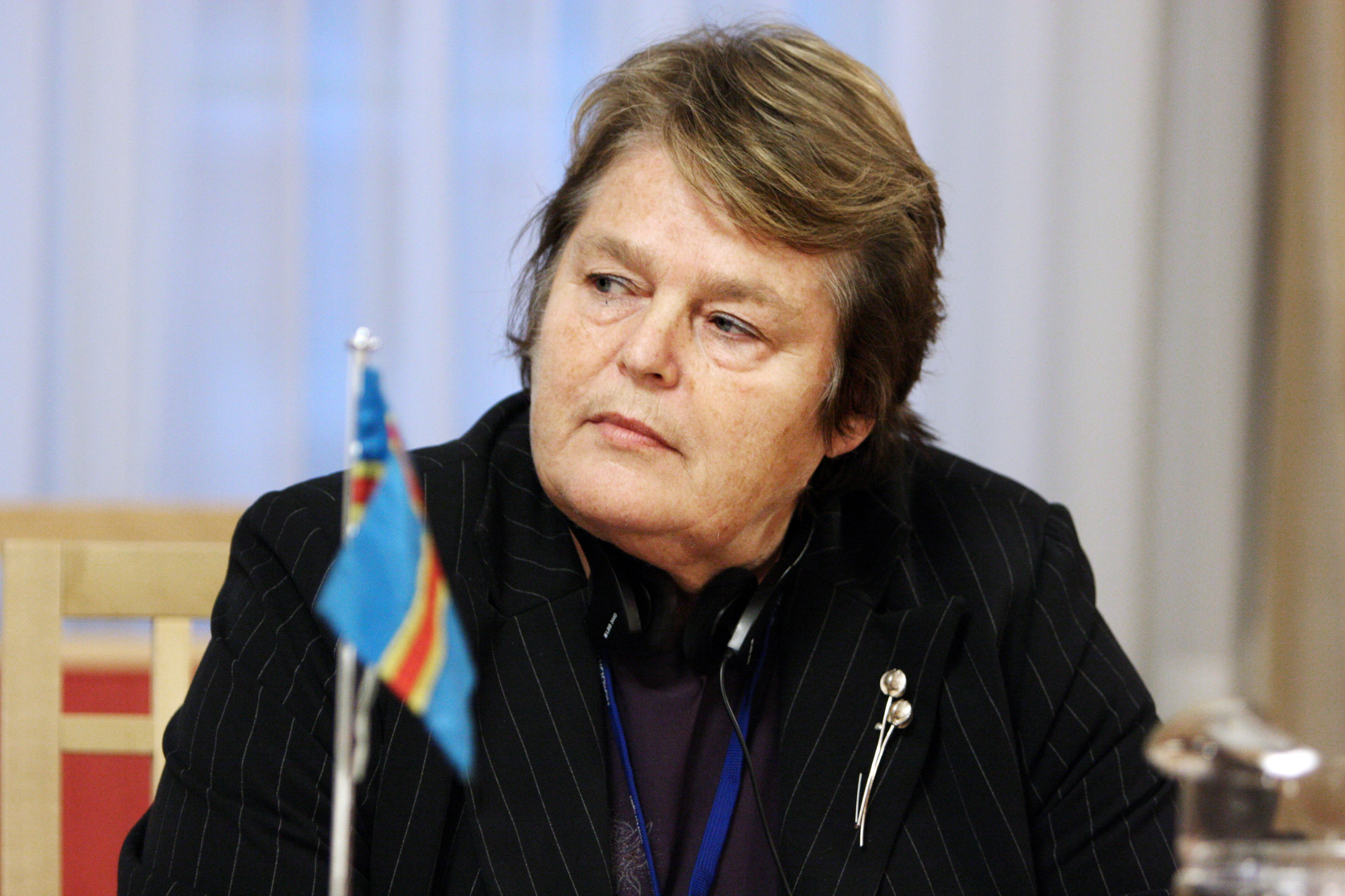 Harriet Lindeman, politician from Åland in Oslo